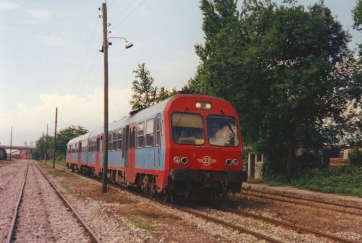 DMU MAN of Greek railways as local train 1592 from Larissa to Thessaloniki is entering Katerini station